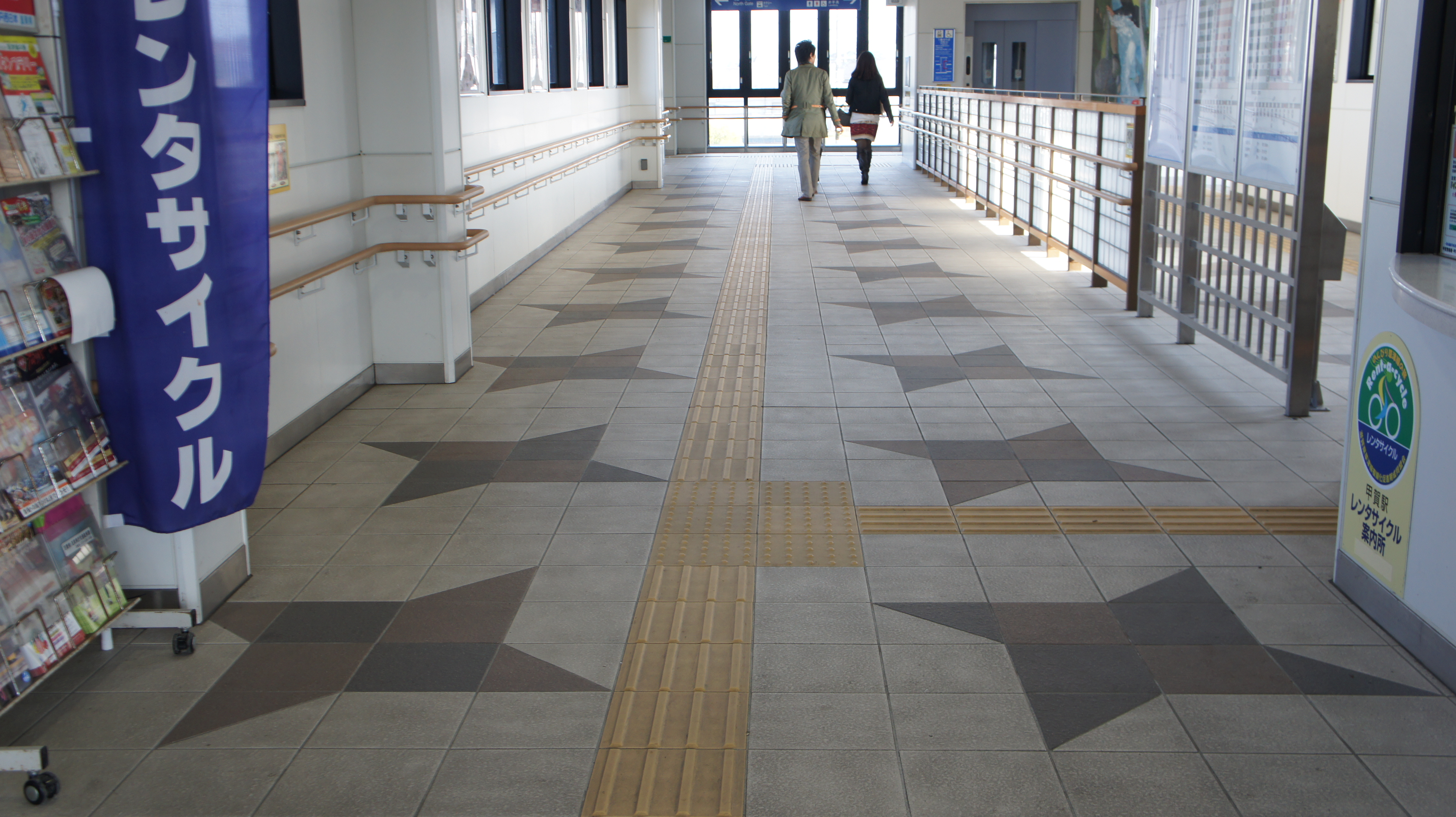 Koka train station Taken on November 28, 2010 Sony NEX-5